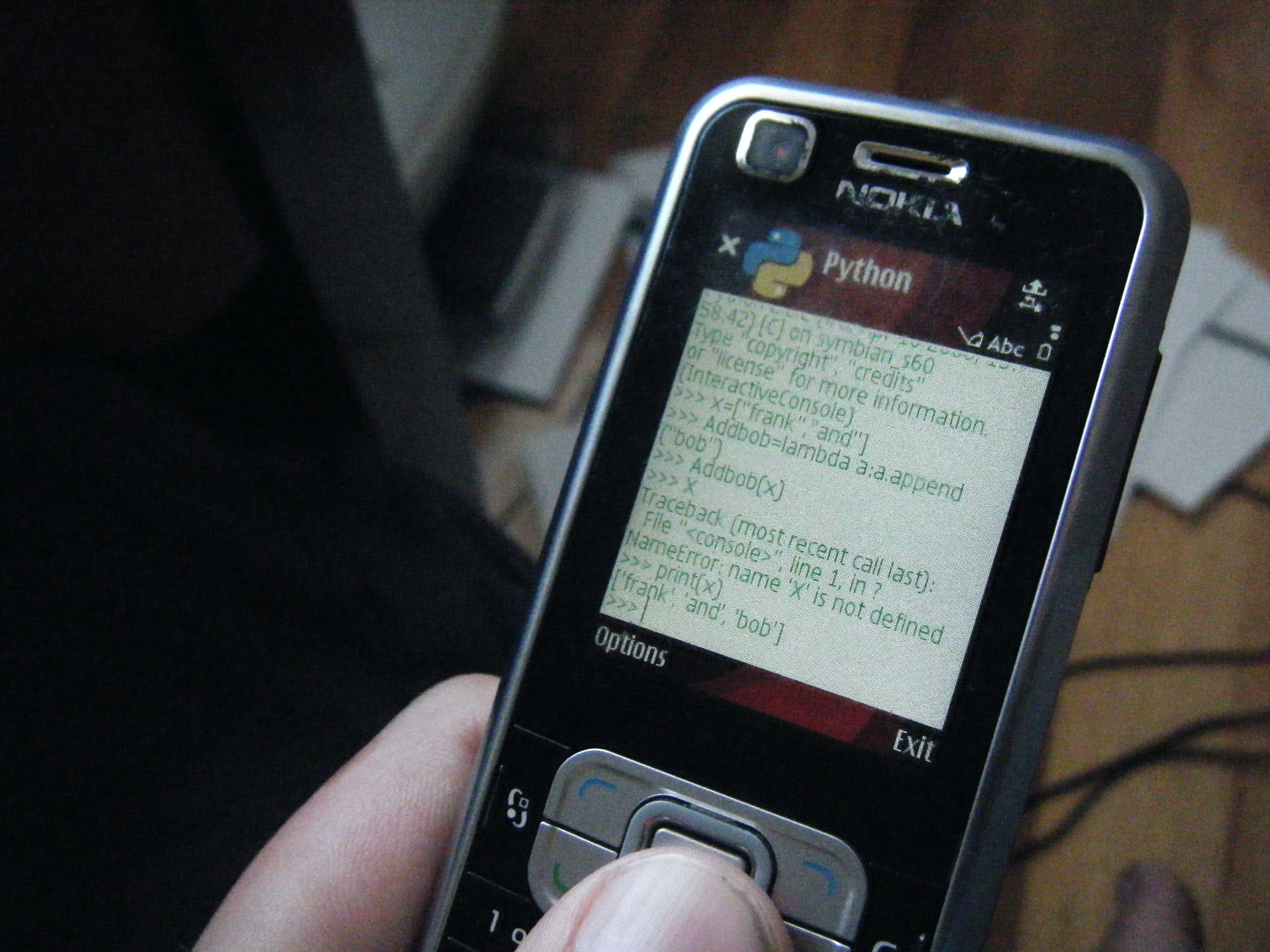 Nokia 6120 Classic Running Python for S60 Shell.